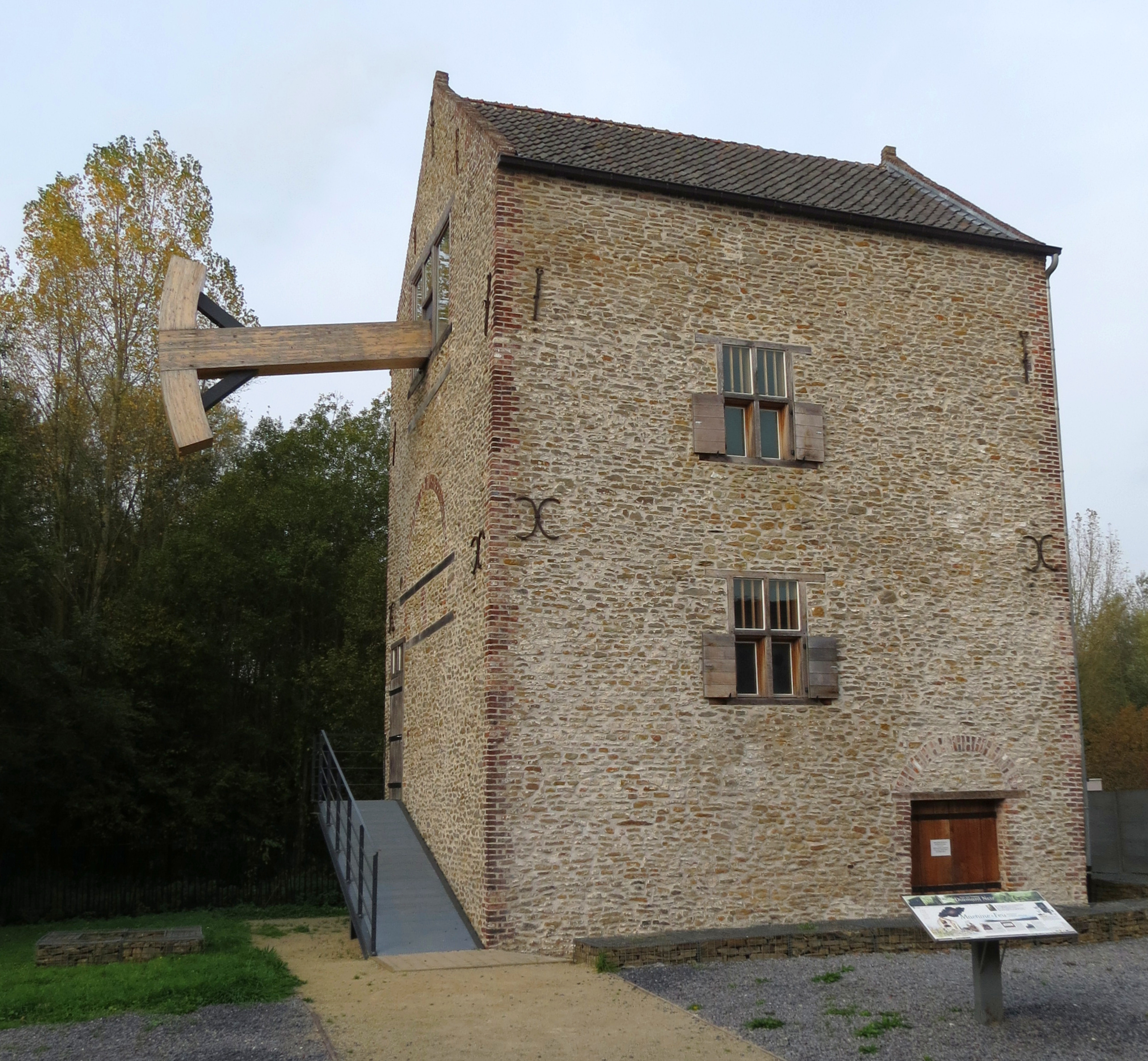 Ancient Thomas Newcomen engine building (1781) in Bernissart, Belgium